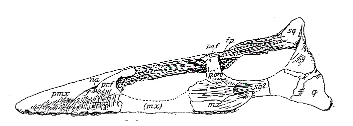 Brancasaurus skull left lateral aspect